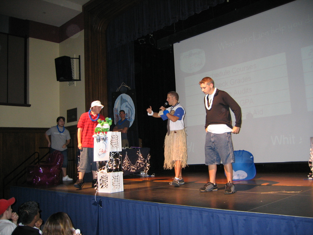 Incoming freshmen participate in "Freshmen Feud" on July 9, 2004. Taken during a Penn State Abington orientation day.